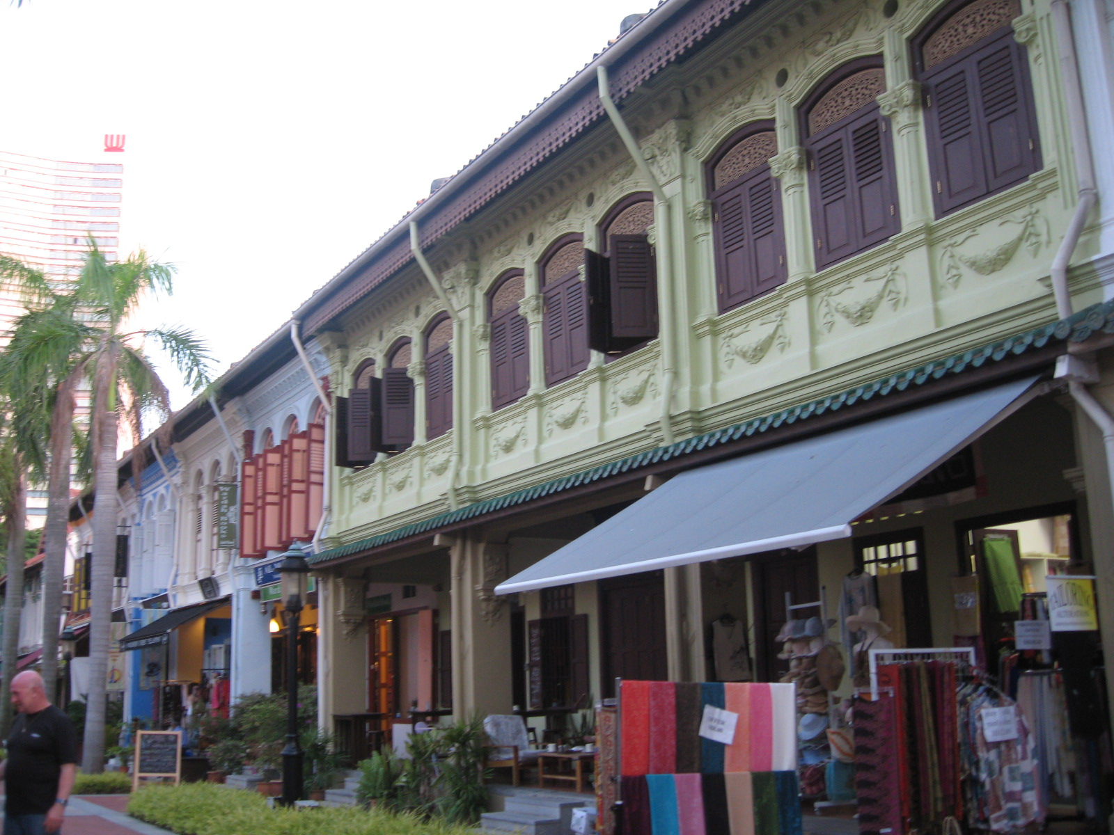 Shophouses in Kampong Glam along Bussorah Street, Singapore.